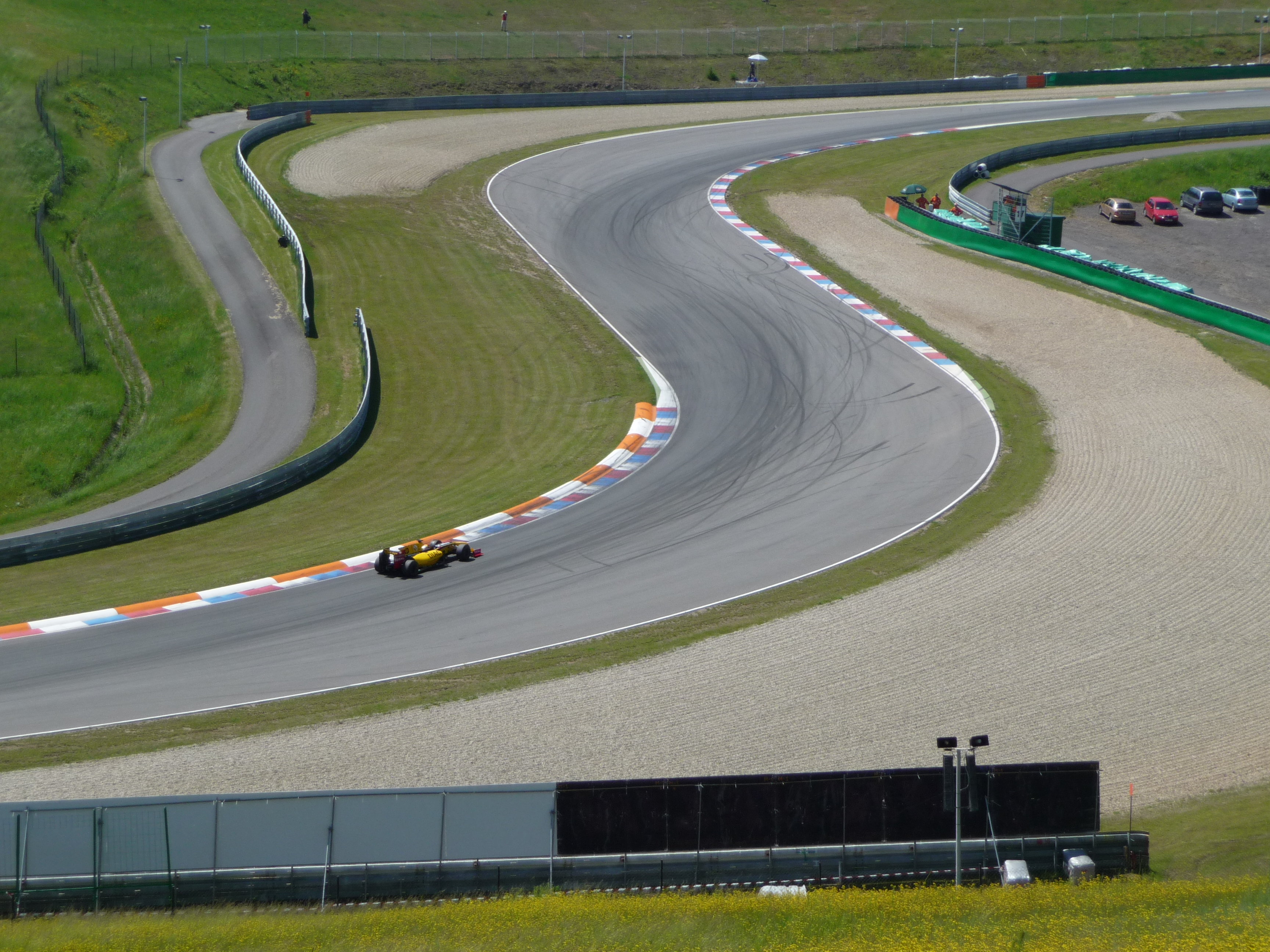 Jérome d´Ambrosio, Formule 1 exhibition, 2010 Brno World Series by Renault